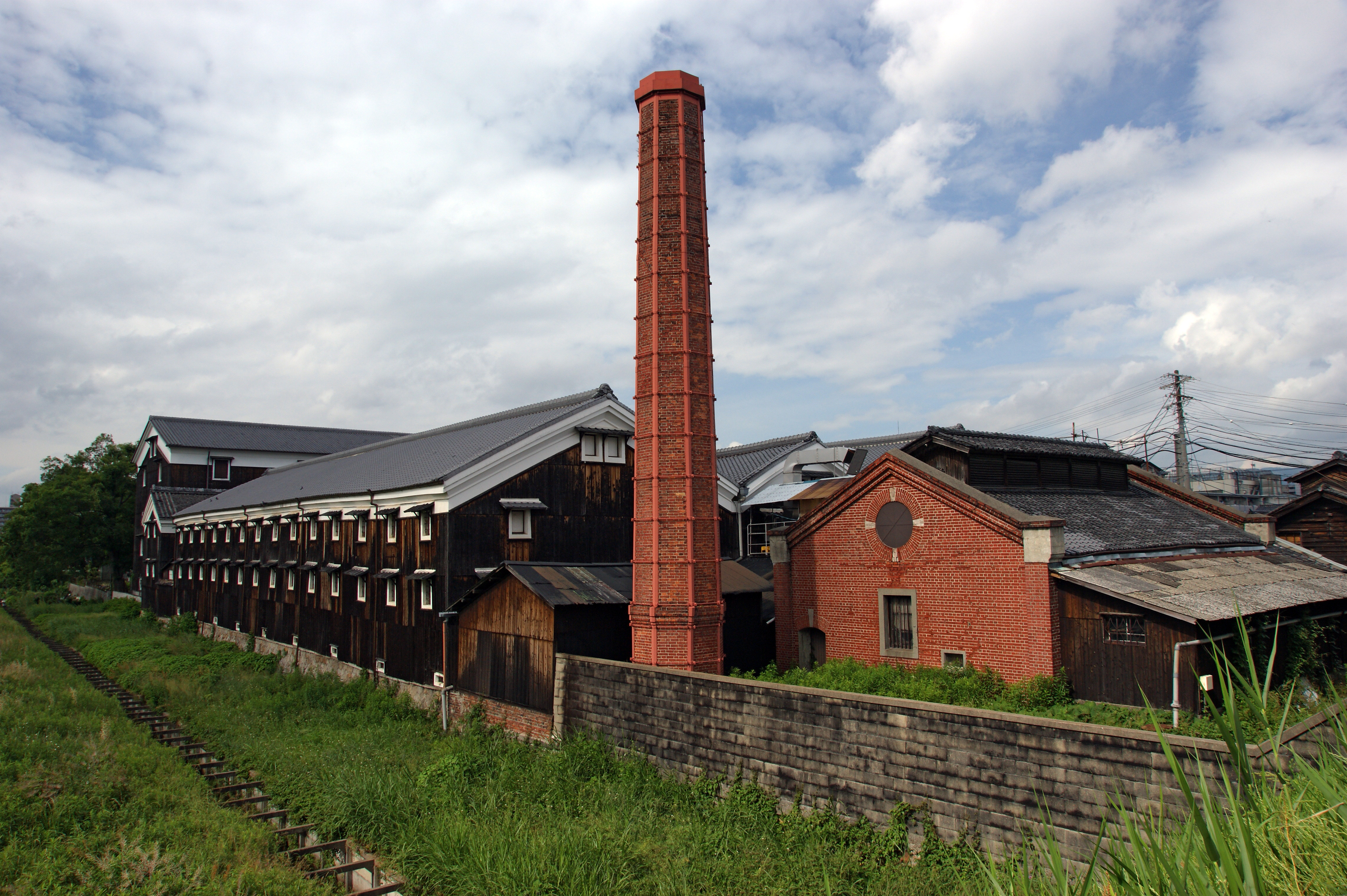 Matsumoto Sake Brewing in Fushimi, Kyoto, Kyoto prefecture, Japan